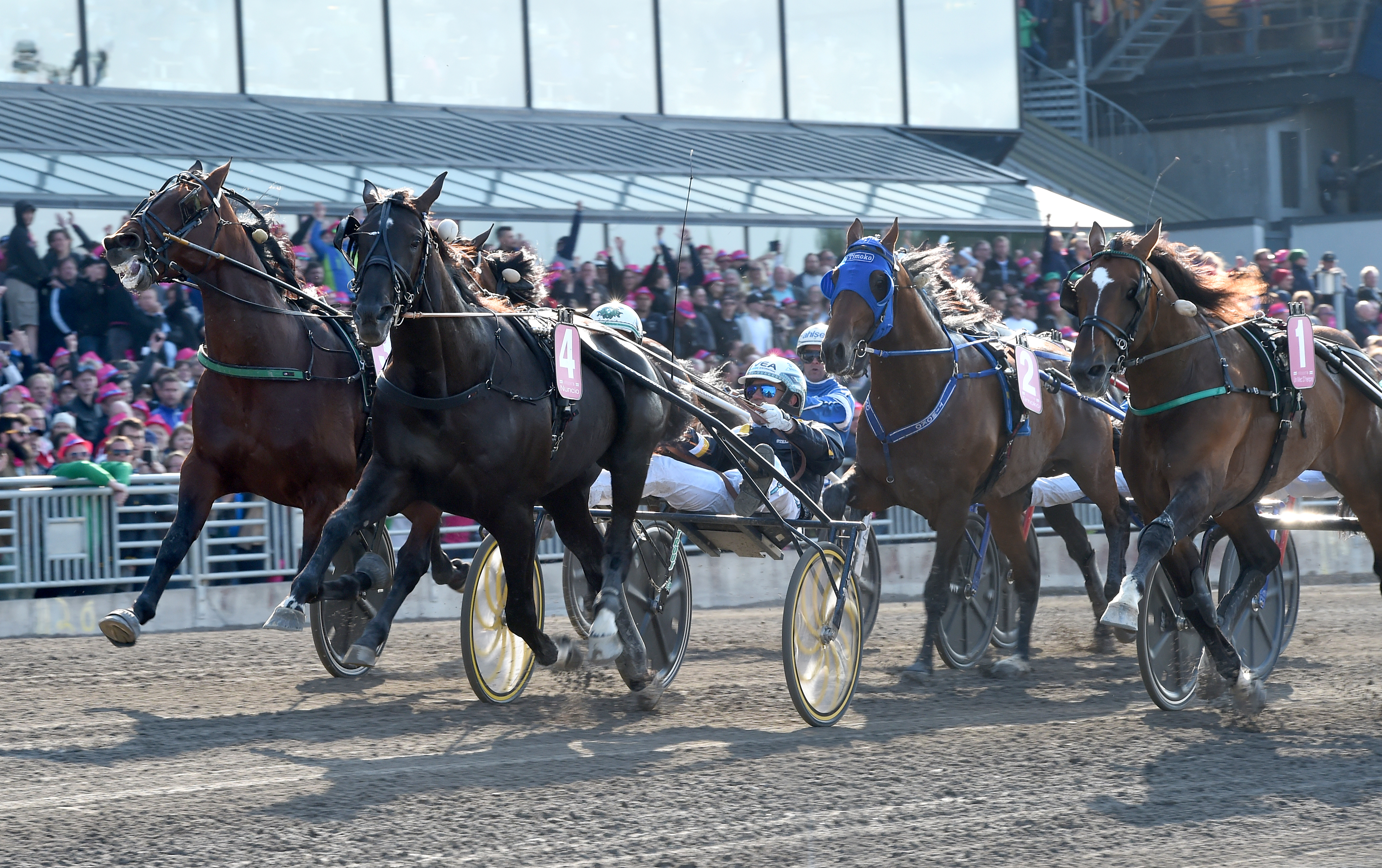 Nuncio and driver Örjan Kihlström wins "Elitloppet" at Solvalla in May 2016.